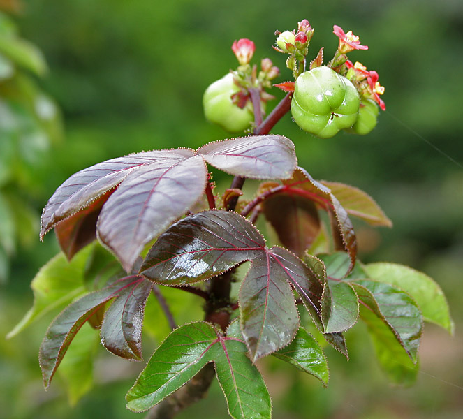 Bellyache Bush or Cottonleaf Physic Nut Jatropha gossipifolia in Hyderabad , India.